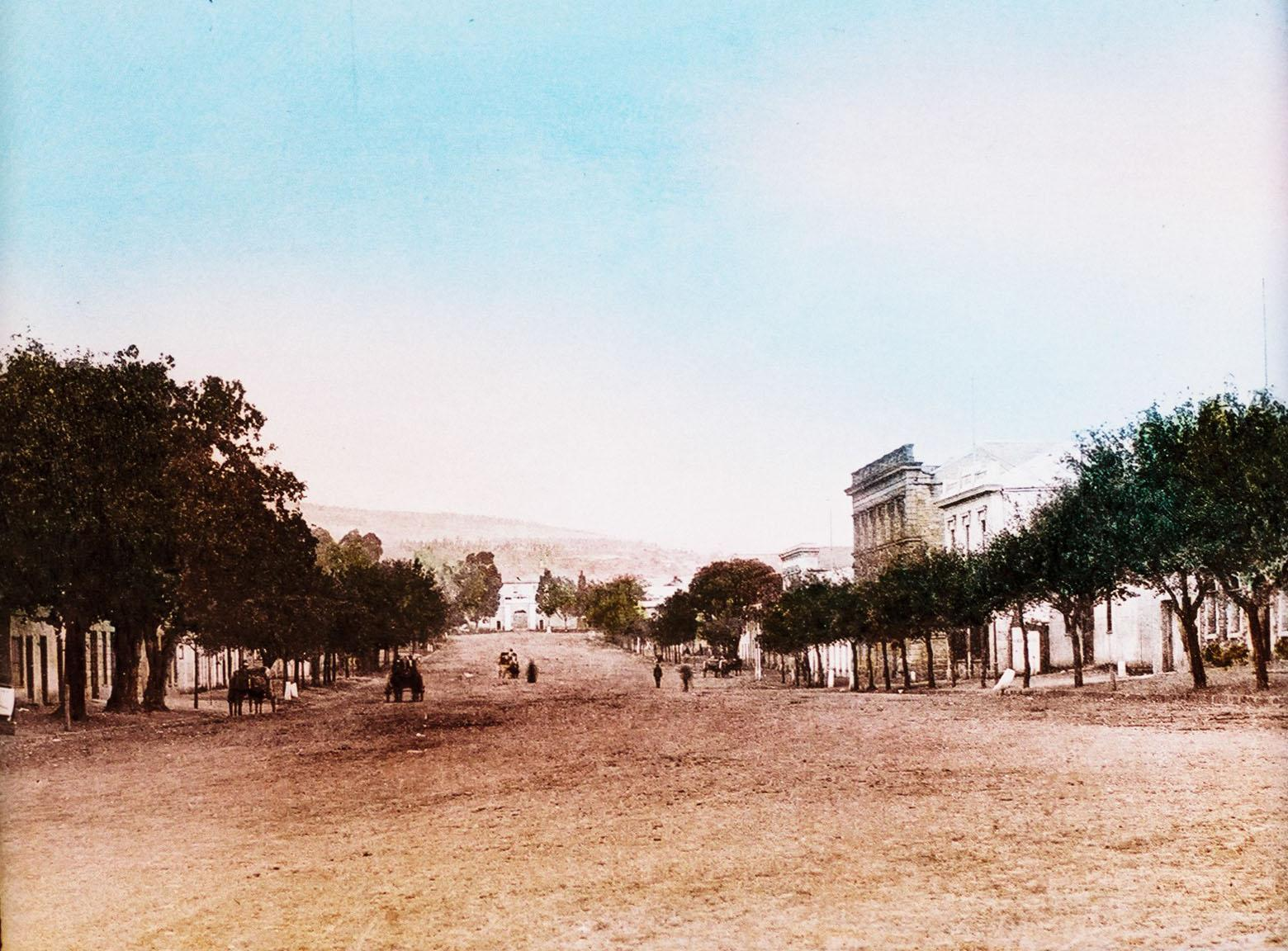 High Street looking west from the corner of Hill Street towards the Drostdy Arch, showing buildings on the north side including Blaine's building.